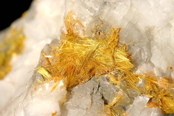 Wakabayashilite, Calcite Locality: White Caps Mine, Manhattan, Manhattan District, Nye County, Nevada, USA (Locality at ) Size: 10.0 x 7.9 x 7.8 cm. A very rare cluster of bright orange Wakabayashilite on a cabinet specimen of contrasting massive calcite. Ex. Andrew Carnegie Collection.